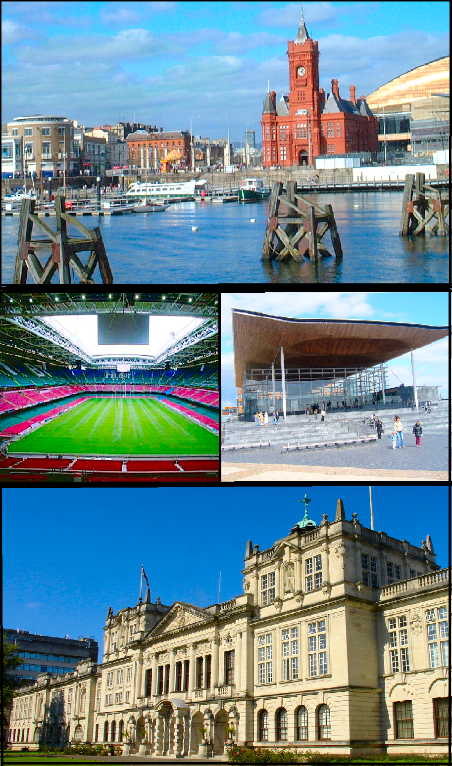 Aspects of Cardiff City